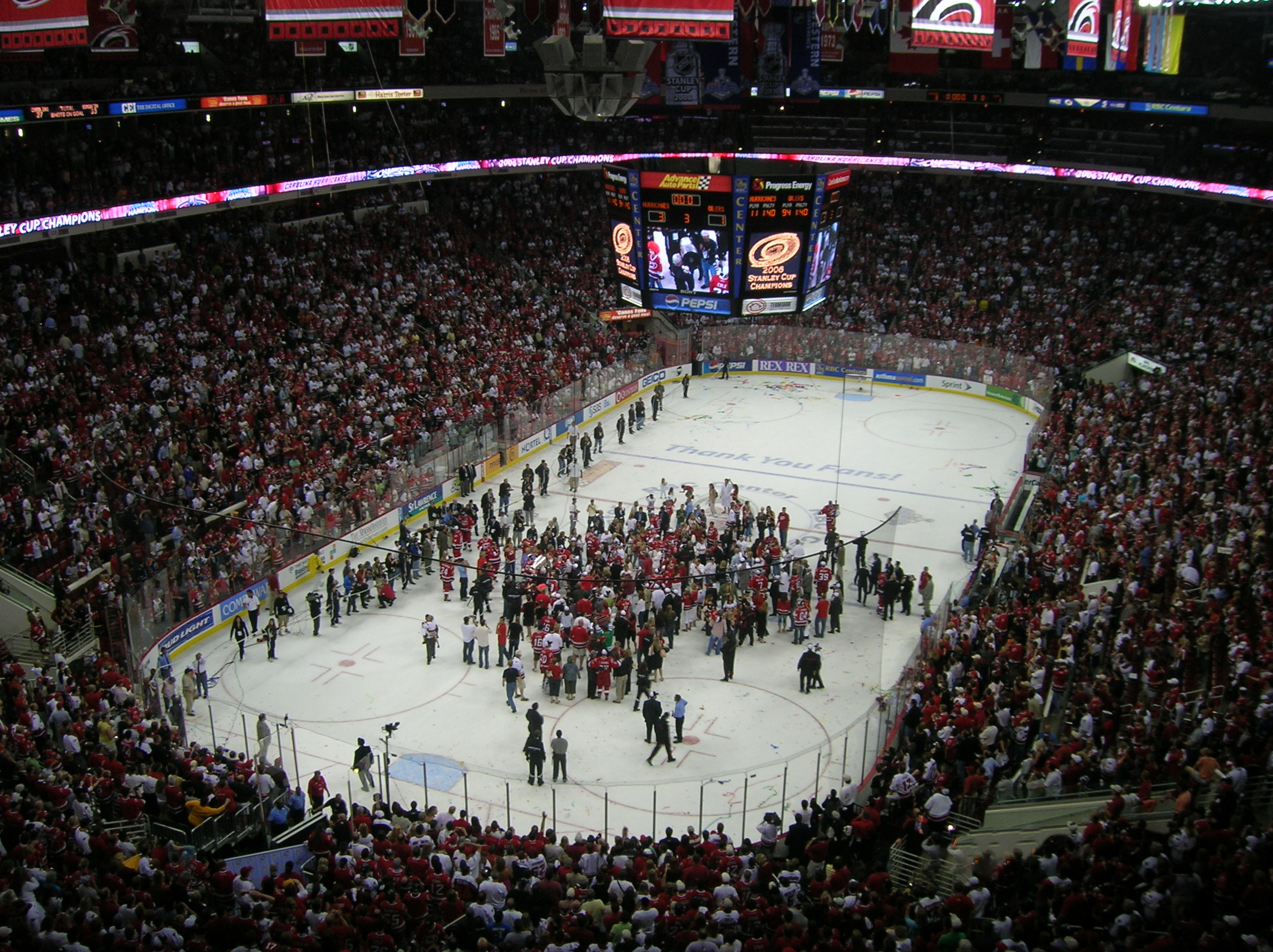 Taken by myself (Bobby Schultz) on June 19th, 2006. Picture of the scene at the RBC Center after the Hurricanes won the 2006 Stanley Cup